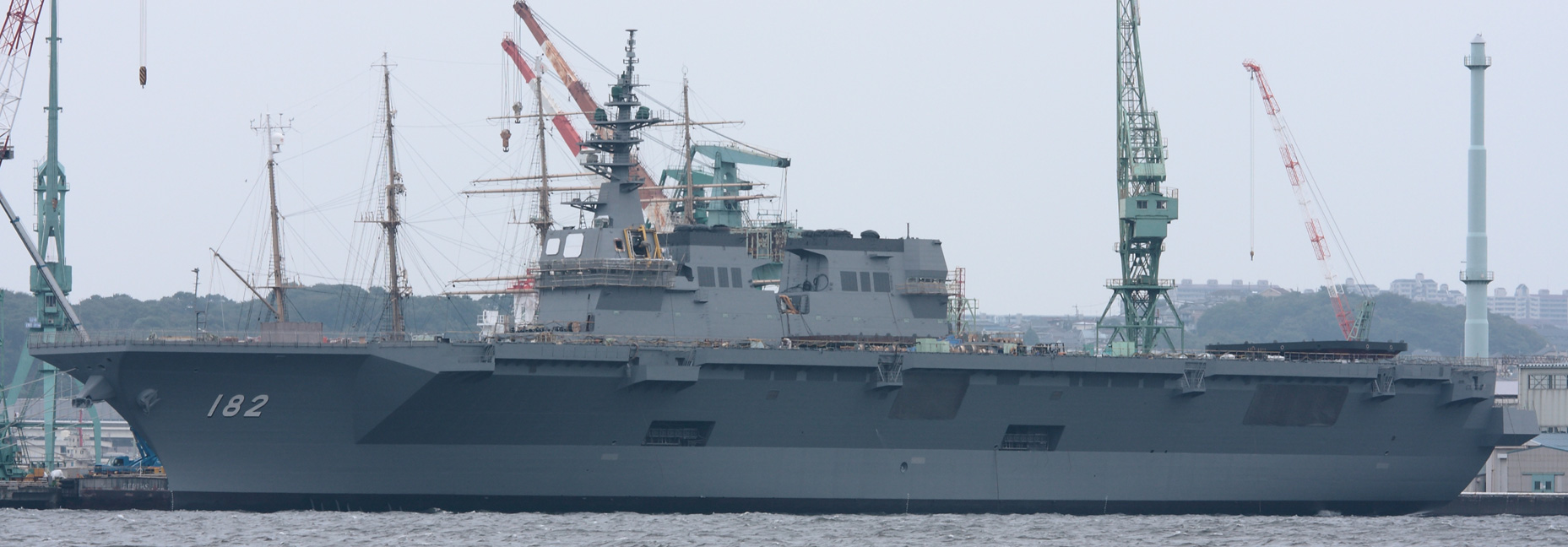 JMSDF DDH-182 Ise at IHI Marine United Yokohama Shipyard.